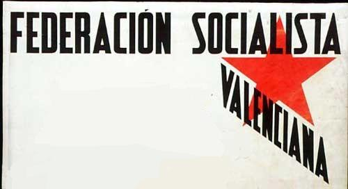 Logo of the Valencian Socialist Federation (1905-1974)